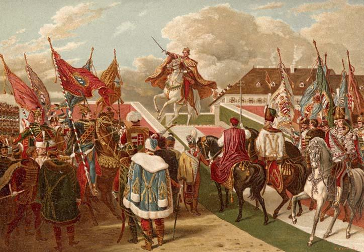 Coronation of Ferdinand V of Hungary in Pozsony, 1830.